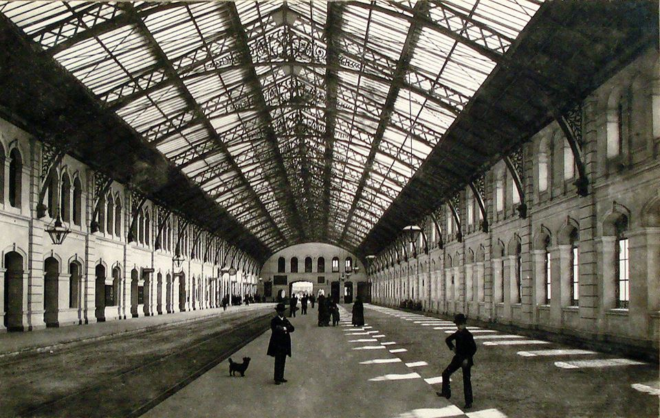 The Constitución train station platforms.